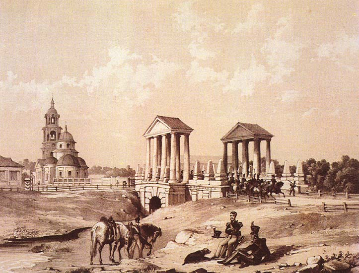 Church of snt Varvara, drawing by E. Turnerelli